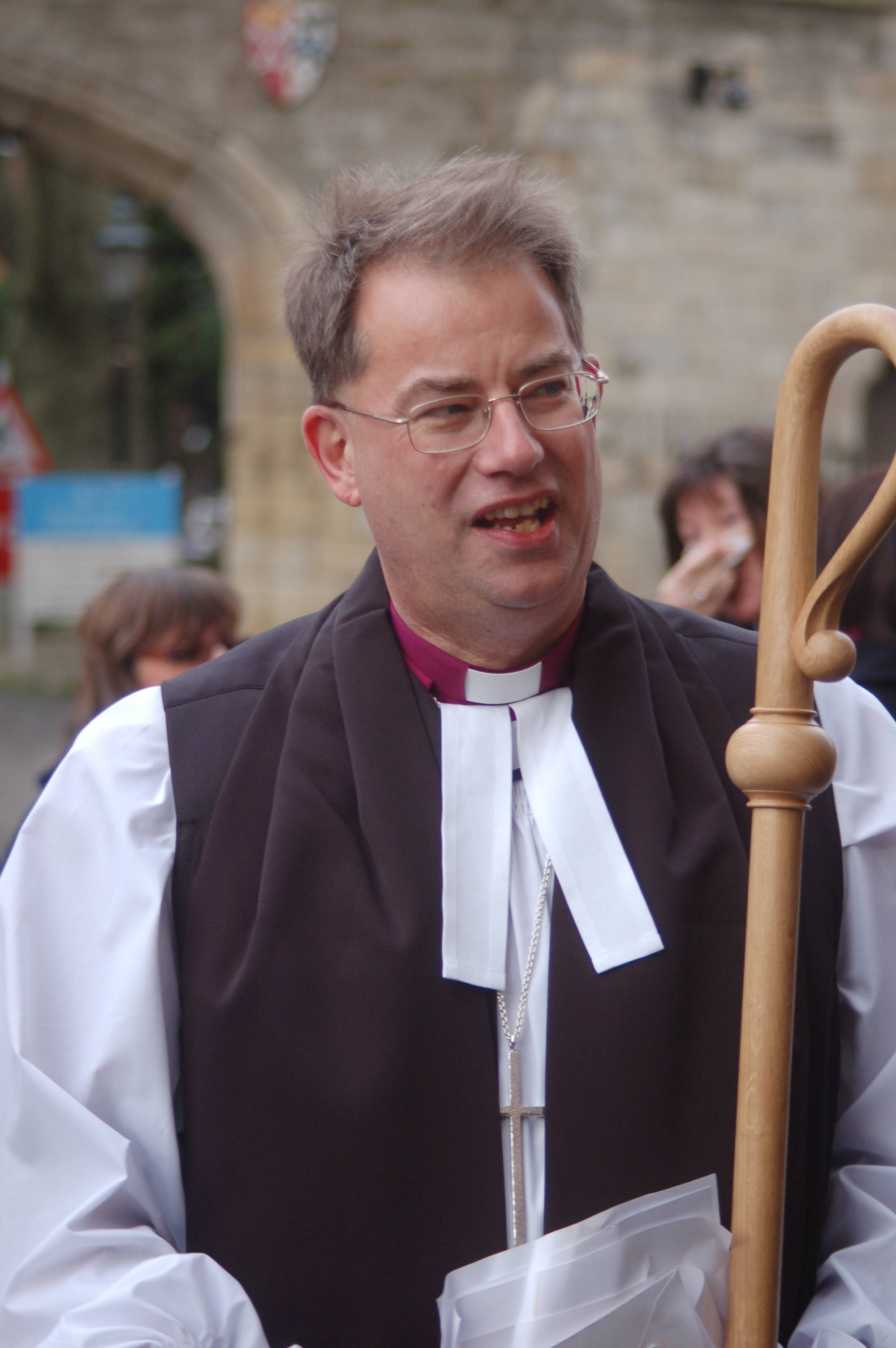 Steven John Lindsey (Steve) Croft on the day of his consecration as Bishop of Sheffield